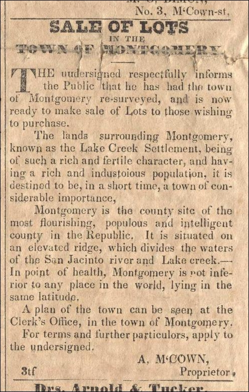 July 2, 1845 edition of the Montgomery Patriot newspaper, published by John Marshall Wade in Montgomery, Texas. "The lands surrounding Montgomery known as the Lake Creek Settlement..."